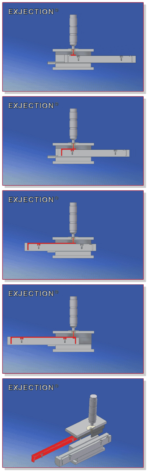 The figure shows five steps of the Exjection process, a plastics processing technology combining features of extrusion and injection moulding. Die Abbildung zeigt fünf Schritte des Exjection Prozesses, einer Kunststoffverarbeitungs-Technologie, die Verfahrensmerkmale von Extrusion und Spritzguss kombiniert.